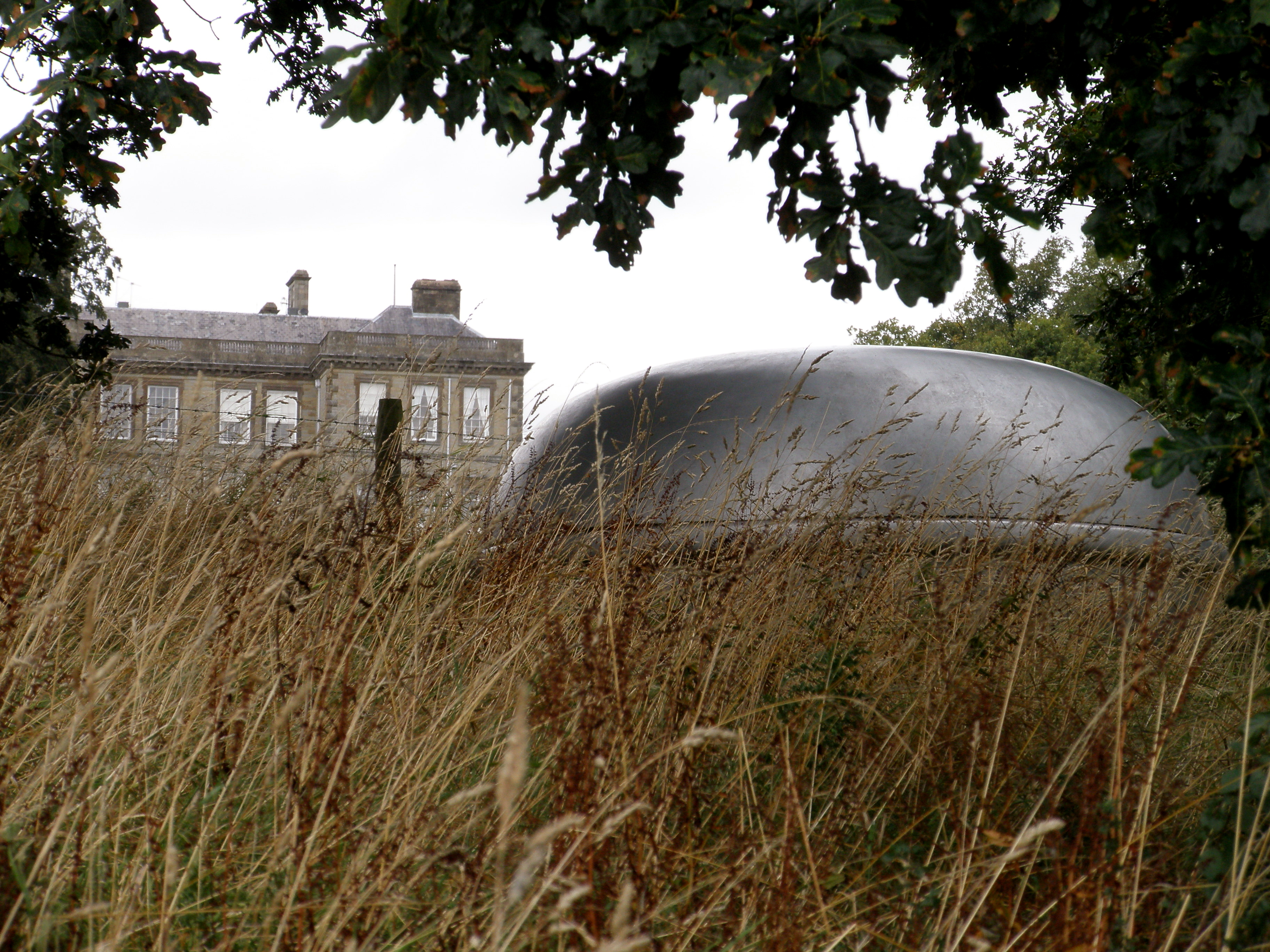 Ragley Hall is the family home of the 9th Marquess and Marchioness of Hertford and the seat of the Conway-Seymour family. The hall was designed in 1680 by Robert Hooke, friend of Sir Christopher Wren. It was completed in the 18th Century by James Gibbs who designed the Great Hall, the exceptional plasterwork in the main reception rooms and the impressive stable block in the 1750s and James Wyatt who added the central portico in 1780. The hall stands in four hundred acres of picturesque parkland landscaped by Lancelot 'Capability' Brown in the 18th Century, and twenty seven acres of formal gardens laid out by Robert Marnock in 1873. The park and gardens provide a spectacular and unique setting for the Jerwood Sculpture collection.